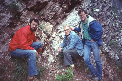 Walter Alvarez (center) in the late 1980s at the Cretaceous-Tertiary boundary outcrop at Gubbio, Italy, where the first evidence for impact as the cause of the dinosaur extinction was discovered. With him are two UC Berkeley graduate students, Mark Anders (left), now a professor at Columbia University, and David Bice, now a professor at Penn State.